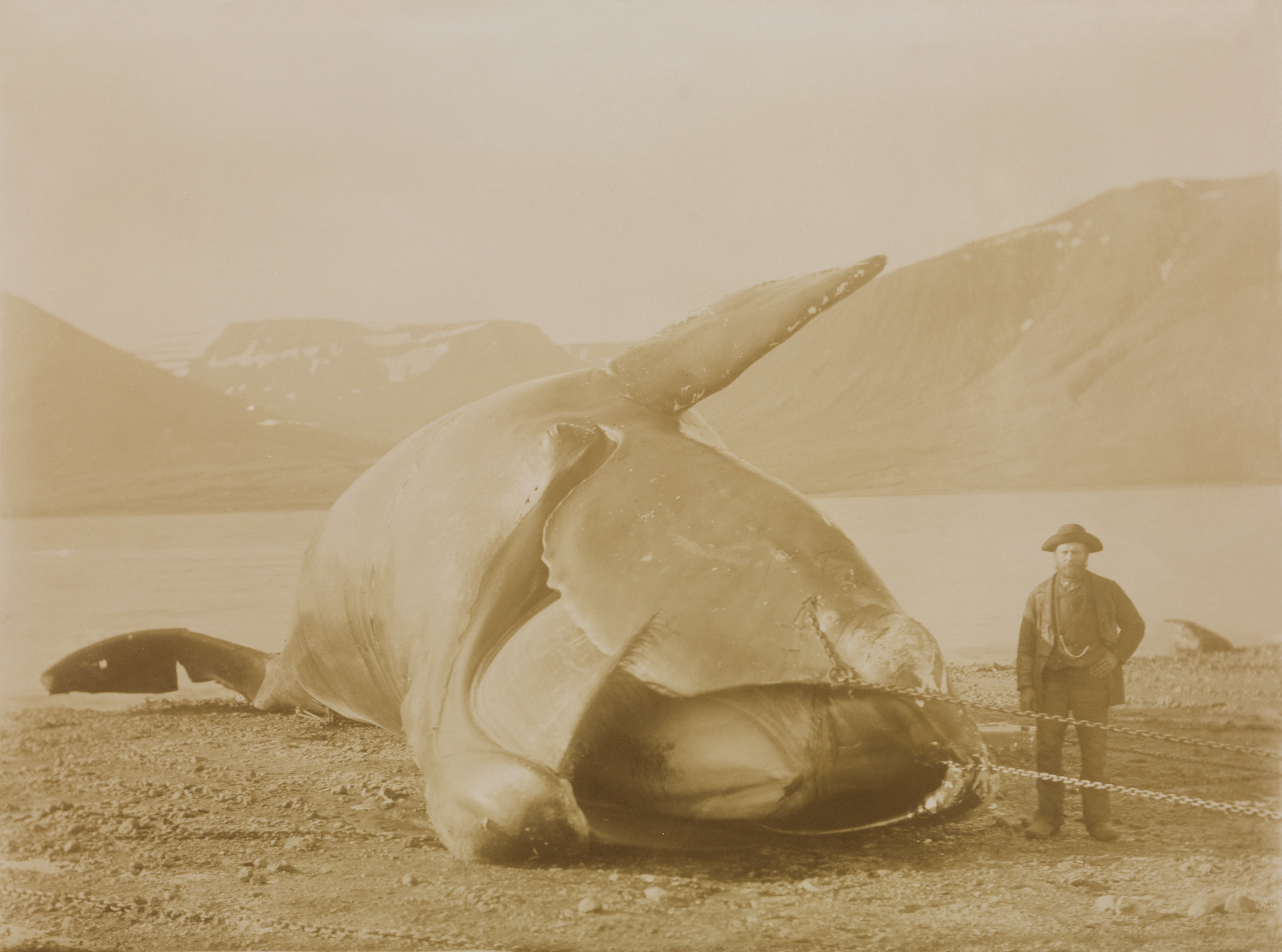 Whale hunting catch (nordkaper ) on the shore. From a marine research cruise to the Norwegian Sea, Iceland and Jan Mayen.